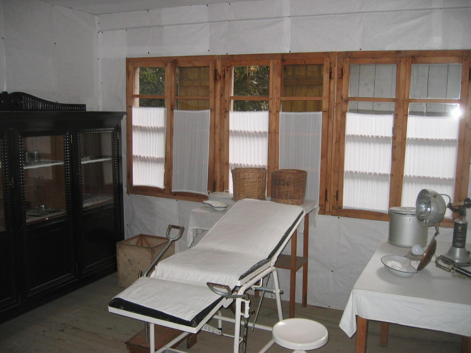 Partisan hospital "Franja" near Cerkno, Slovenia (WW2) photo:Ziga 18:03, 29 October 2006 (UTC)